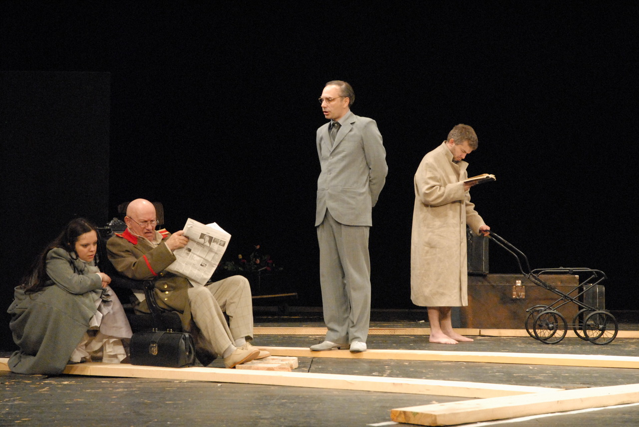 "Three Sisters", play by the Russian author and playwright Anton Chekhov; directed by Radoslav Milenković Drama of th SNT, Novi Sad, 2008/09; Jovana Mišković, Rade Kojadinović, Aleksandar Gajin, Jugoslav Krajnov Srpski (latinica): "Tri sestre", drama ruskog pisca Antona Čehova; reditelj Radoslav Milenković, Drama SNP-a, Novi Sad, 2008/09; Jovana Mišković, Rade Kojadinović, Aleksandar Gajin, Jugoslav Krajnov Српски (ћирилица): "Три сестре", драма руског писца Антона Чехова; редитељ Радослав Миленковић, Драма СНП-а, Нови Сад, 2008/09; Јована Мишковић, Раде Којадиновић, Александар Гајин, Југослав Крајнов